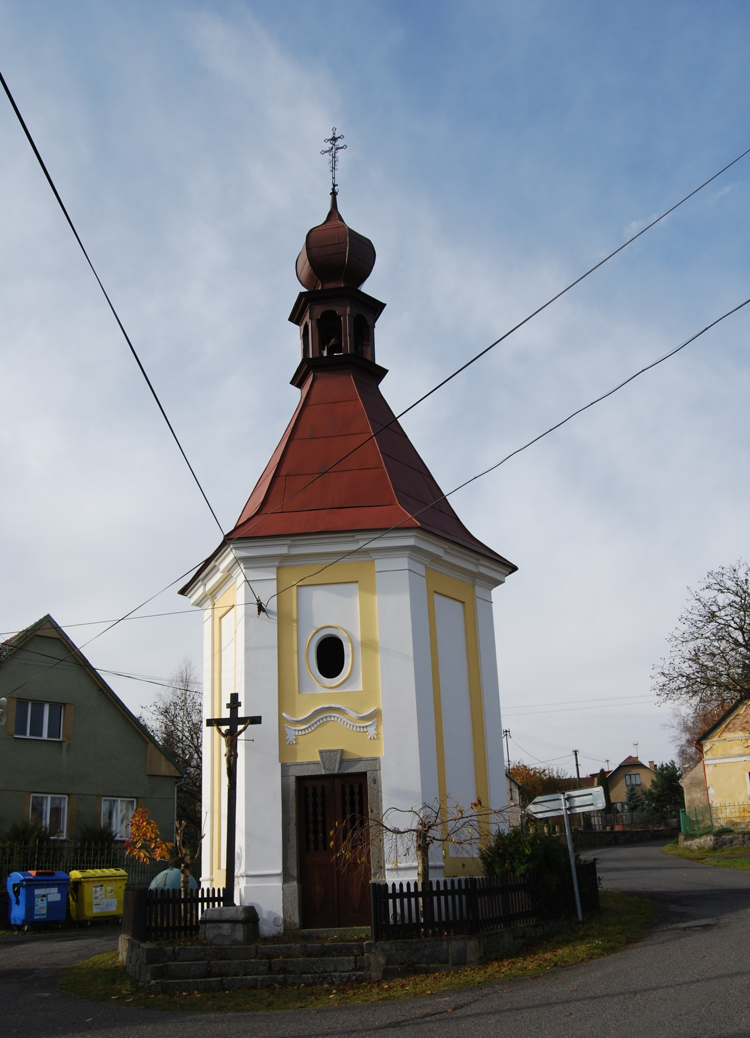 Vševily village in Příbram District, Czech Republic. Chapel